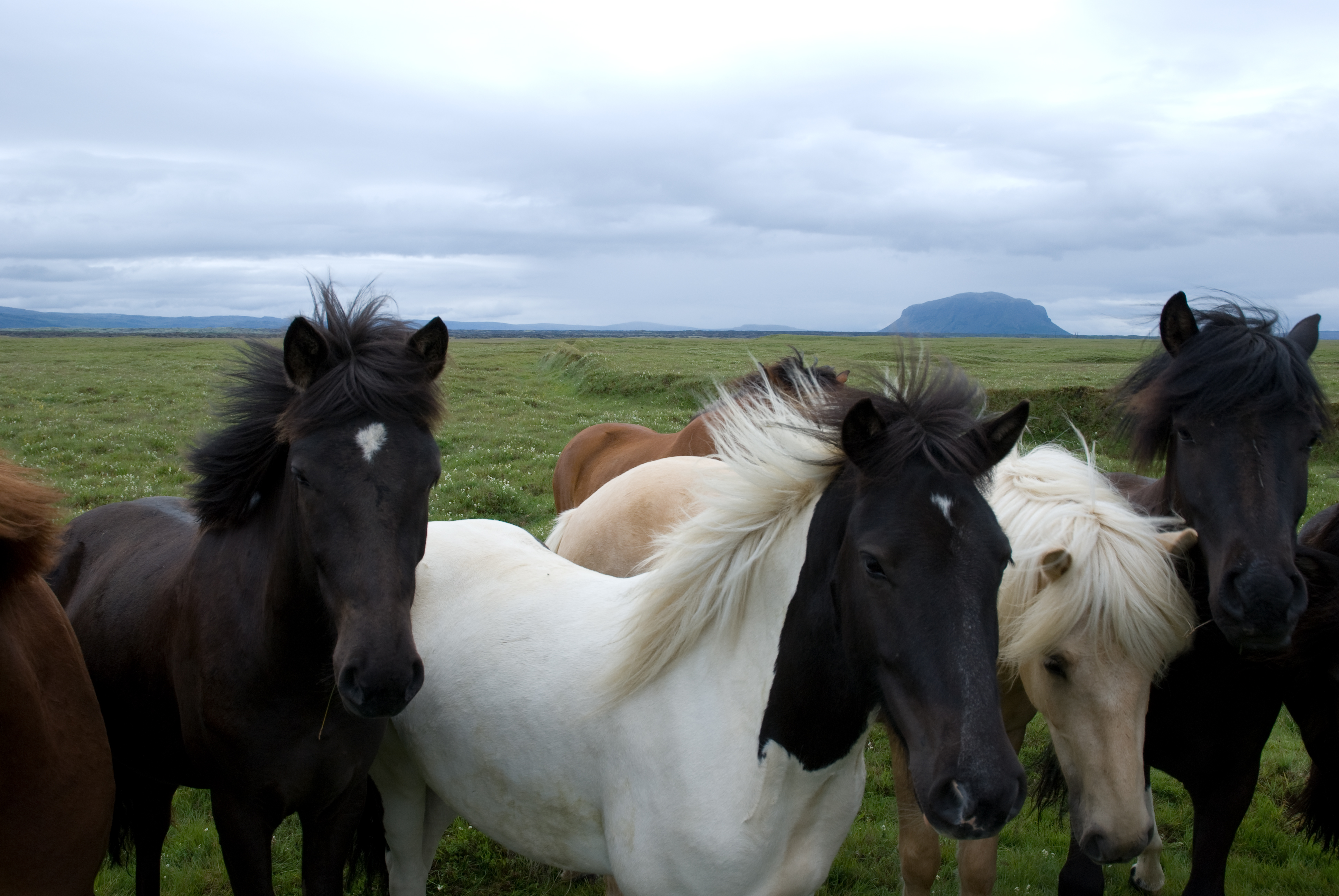 Icelandic ponies